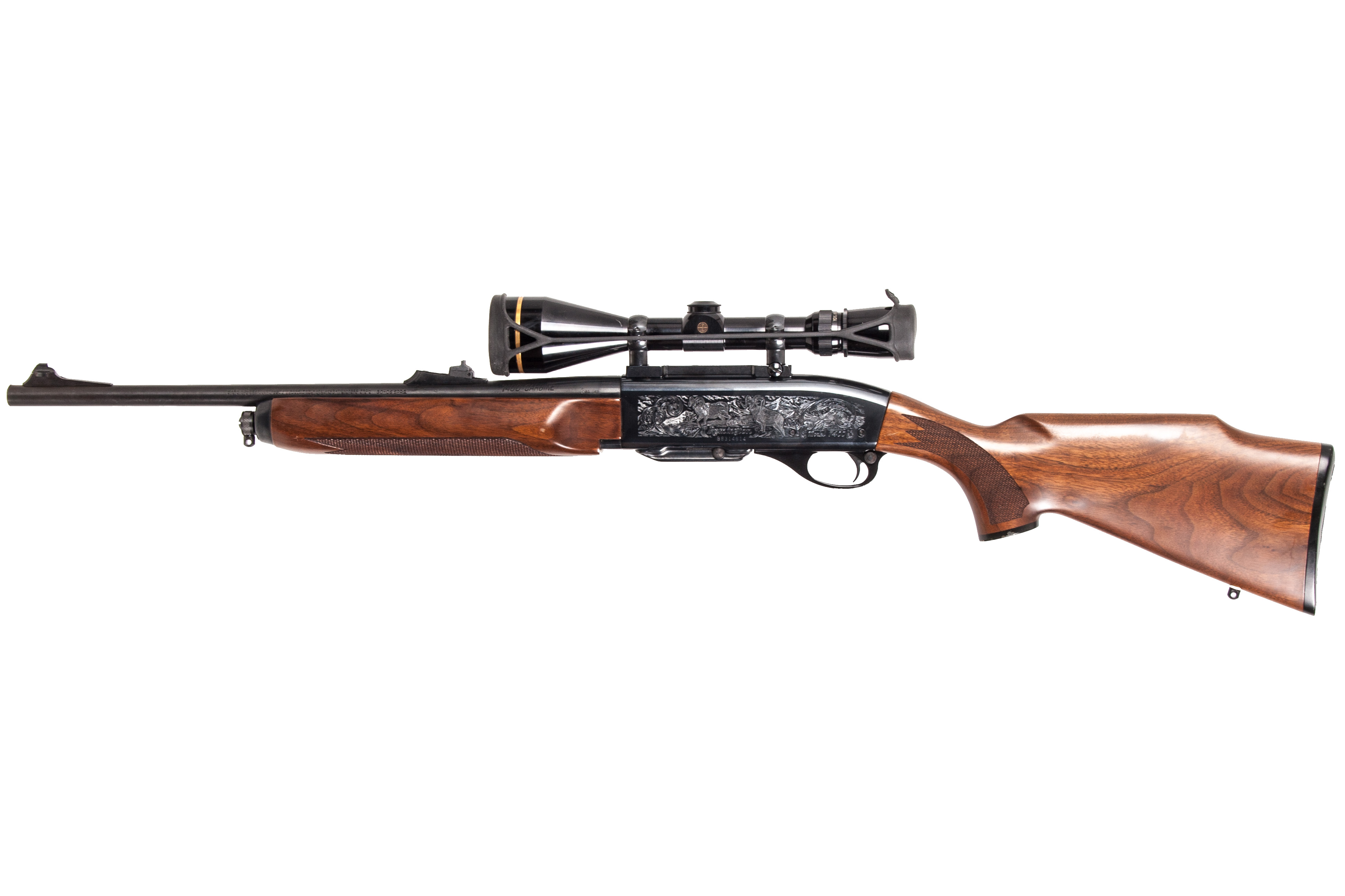 A Remington Model 7400 Semi Automatic Carbine Rifle in .270 Calibre with etching done after market. Purchased used from Switzer Auctions in Ontario, Canada.